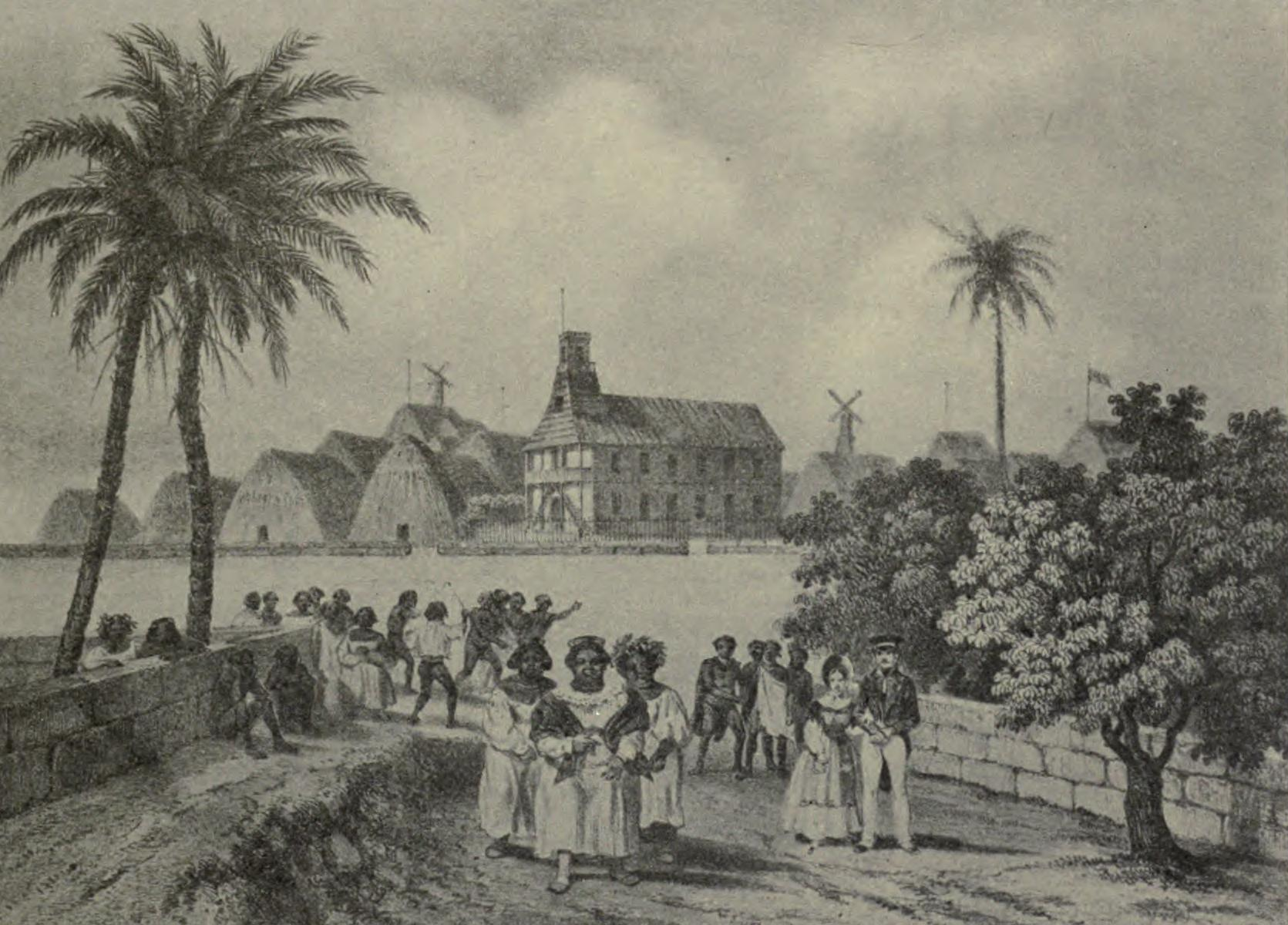 Engraving of Elizabeth Kinau (Kaahumanu II) returning home from Church.